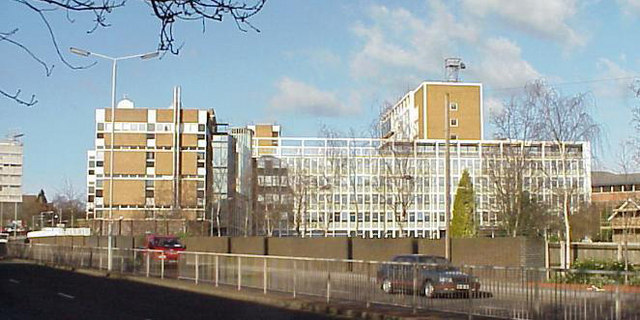 The Meteorological Office, BracknellThe Met.Office Headquarters building seen from London Road. The Met. Office has now relocated to Exeter and this site in Bracknell has been demolished (~2007) and a block of apartments has been constructed in its place.